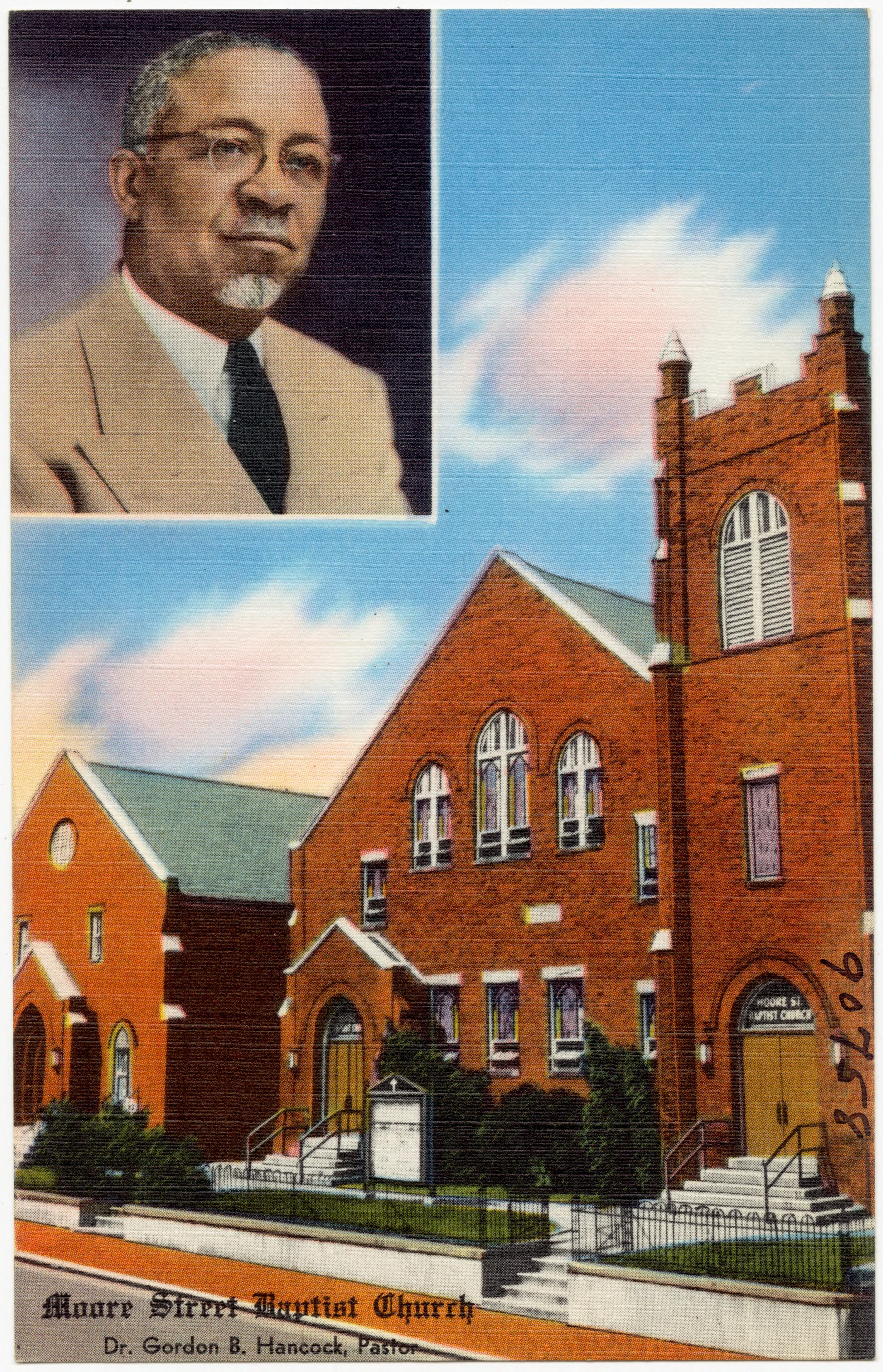 Postcard featuring Moore Street Baptist Church, Dr. Gordon B. Hancock, Pastor